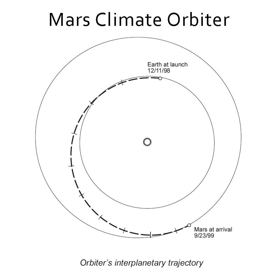 Interplanetary trajectory of Mars Climate Orbiter when en route to Mars.